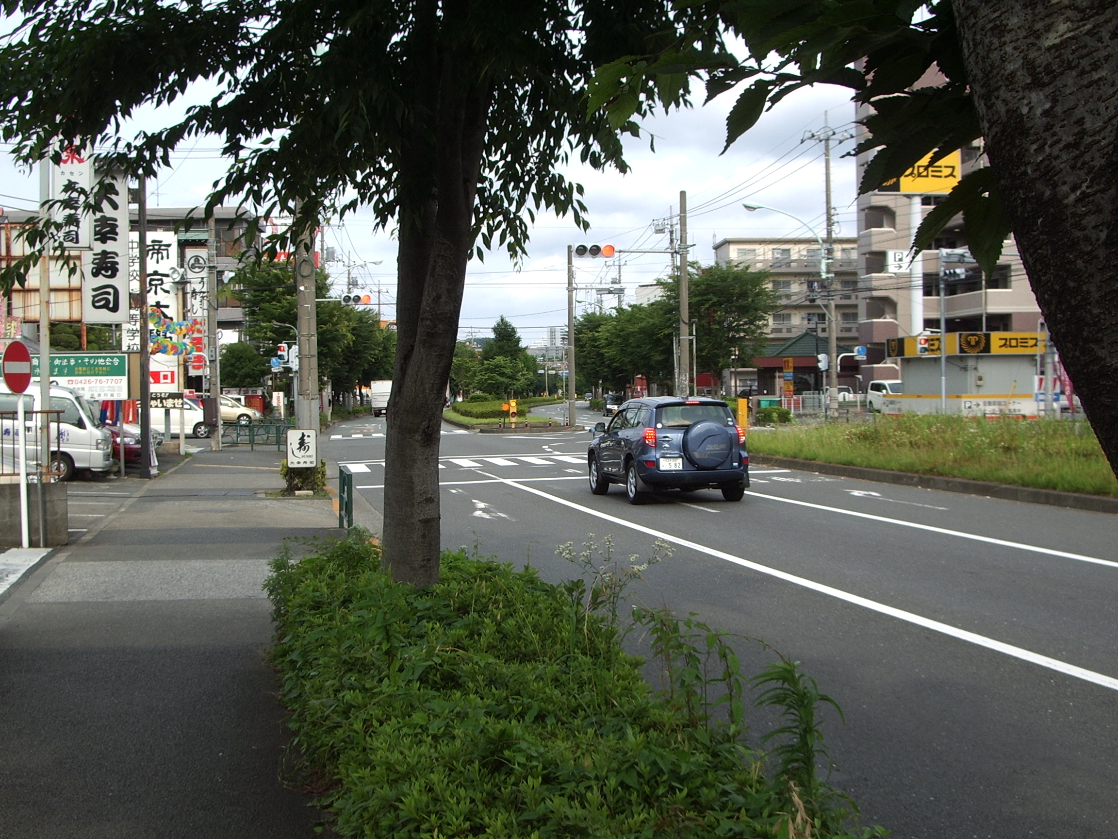 yaenkaido, hachioji, tokyo